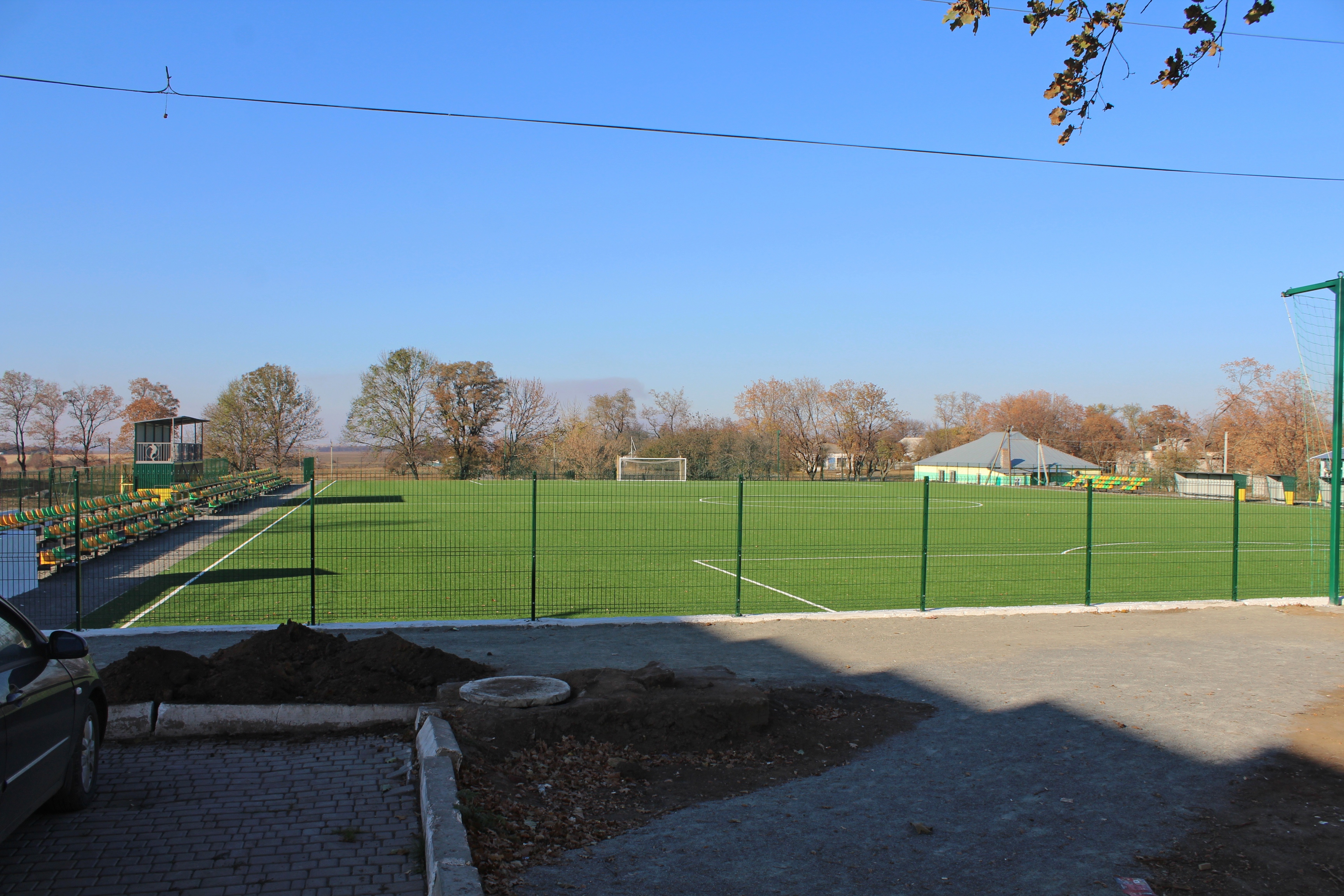 Oleksandr Povorozniuk Stadium in Volodymyrivka, Petrove Raion, Kirovohrad Oblast, Ukraine